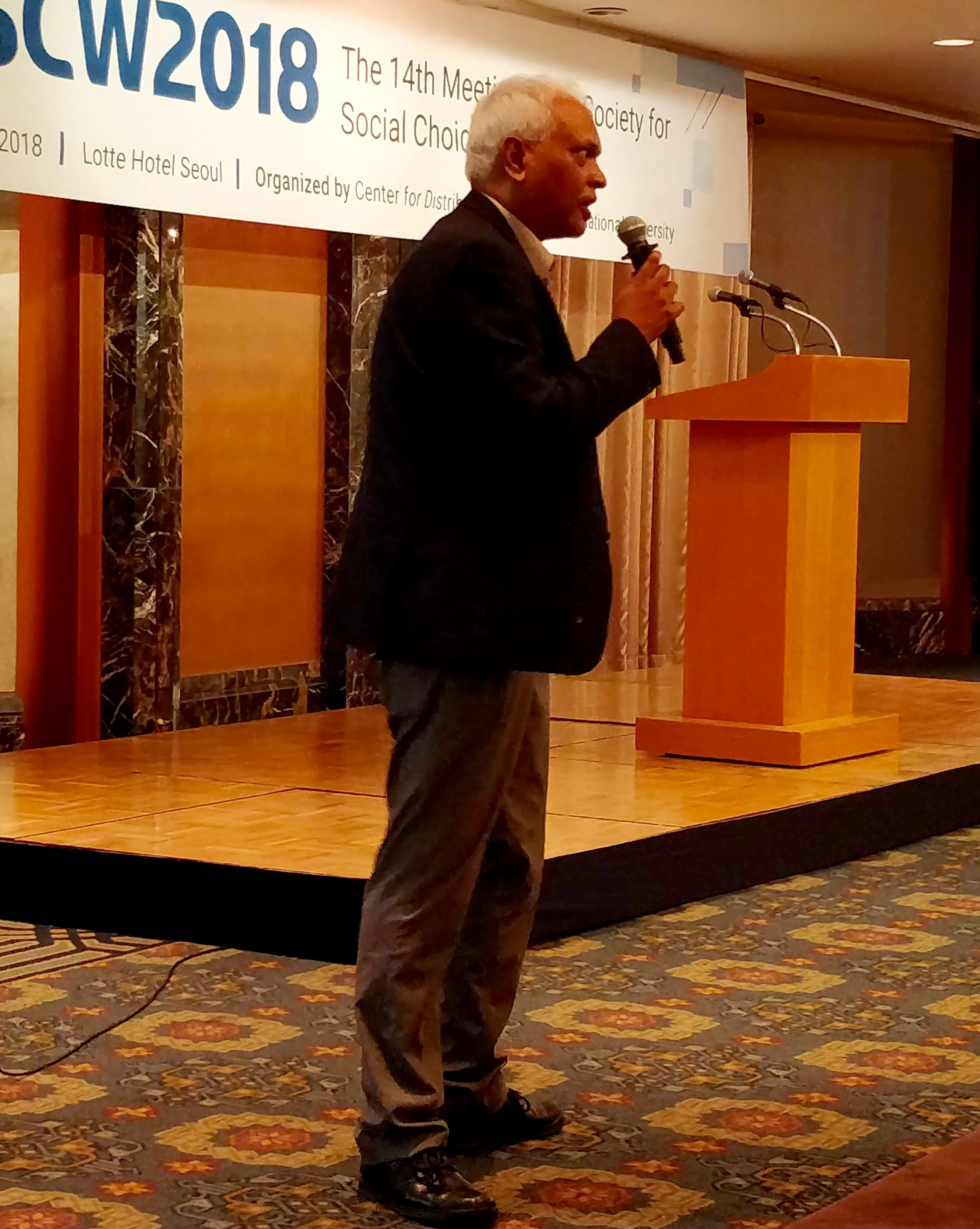 Photograph of Arunava Sen, Professor, Indian Statistical Institute, delivering a lecture at the Seoul meeting of the Society for Social Choice and Welfare